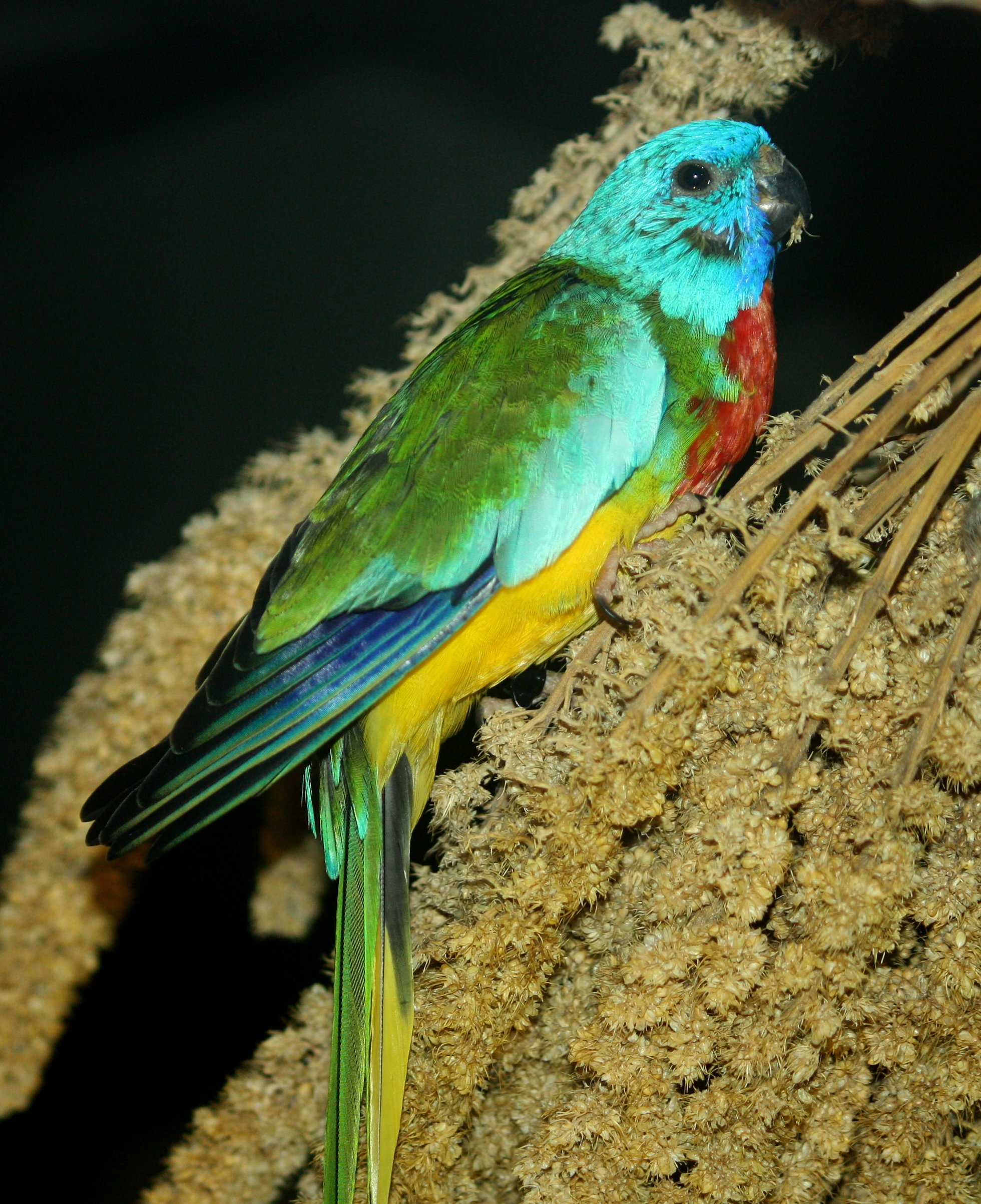 Scarlet-chested Parrot "Neophema splendida" at Cincinnati Zoo